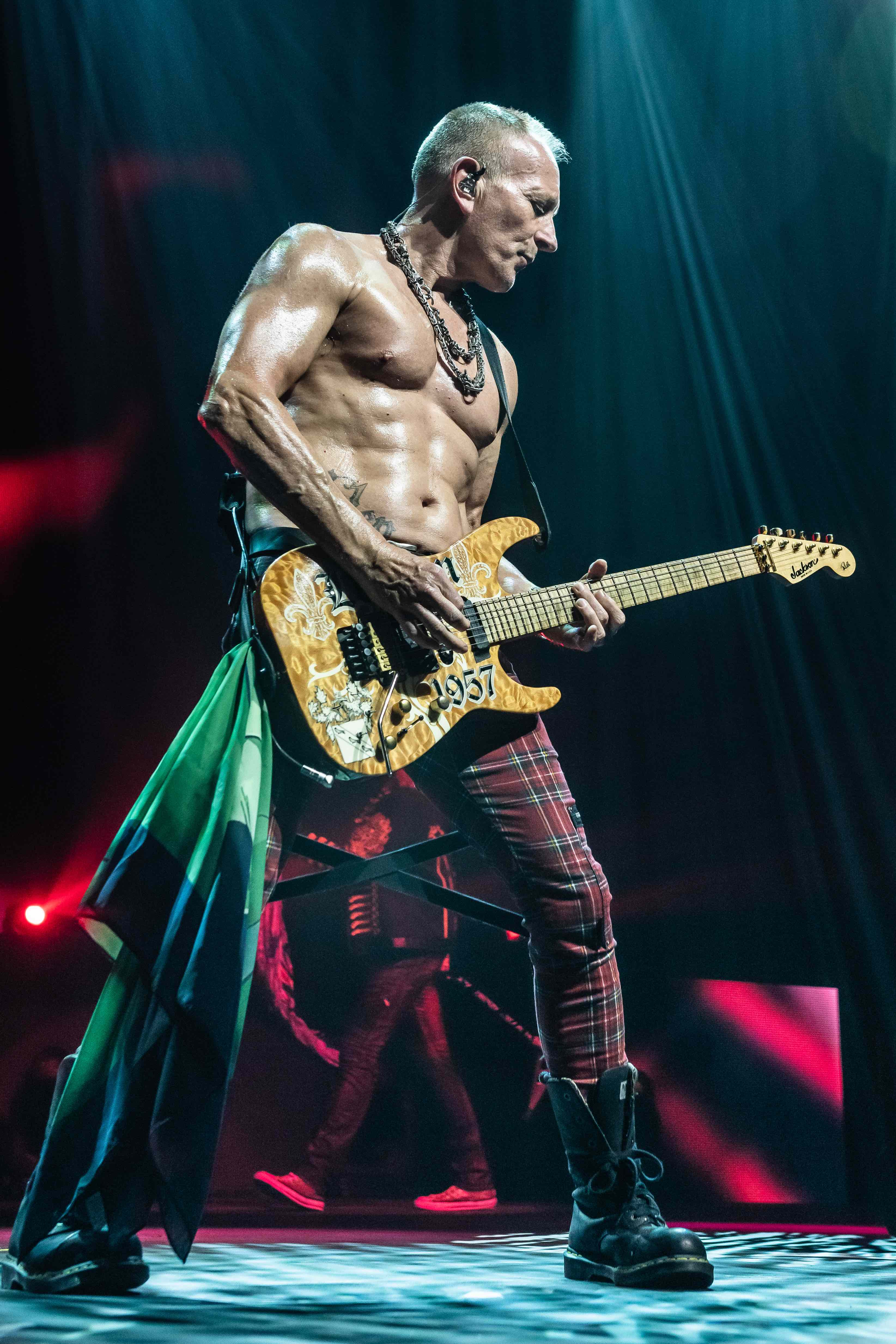 Phil Collen Australian Tour at 60 years old. Photo by Kevin Nixon.